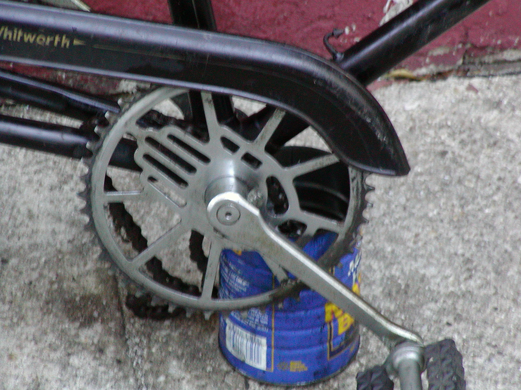 Chainring from a Rudge Whitworth bicycle I owned. Picture is probably from 2005 or so.